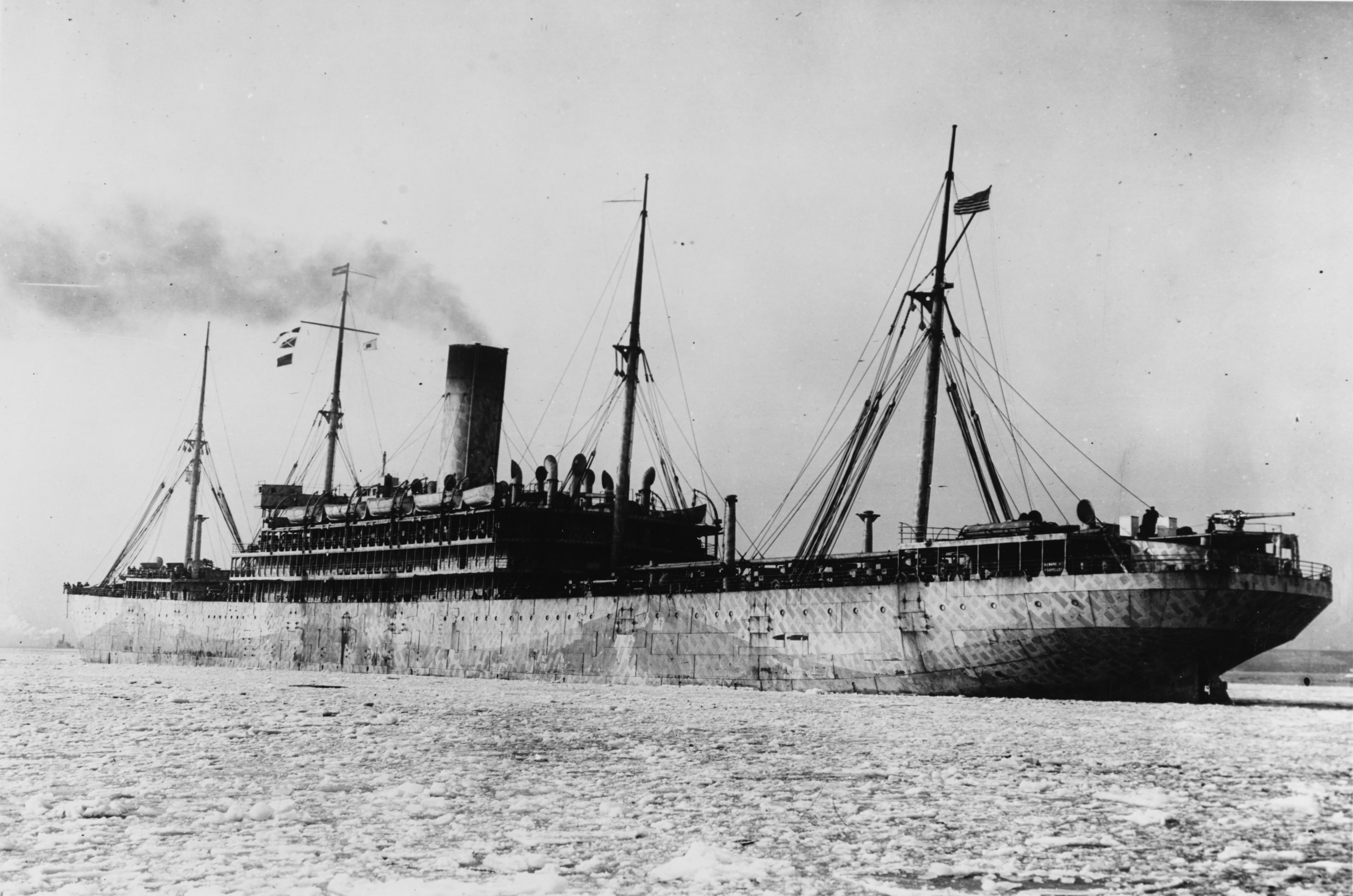 (American Passenger-Cargo Ship, 1904) In an icy harbor, during the winter of 1917-1918. She is painted in Mackay low visibility camouflage. This ship served as USS Troy (ID # 1614) in 1919. Photograph from the Bureau of Ships Collection in the U.S. National Archives.